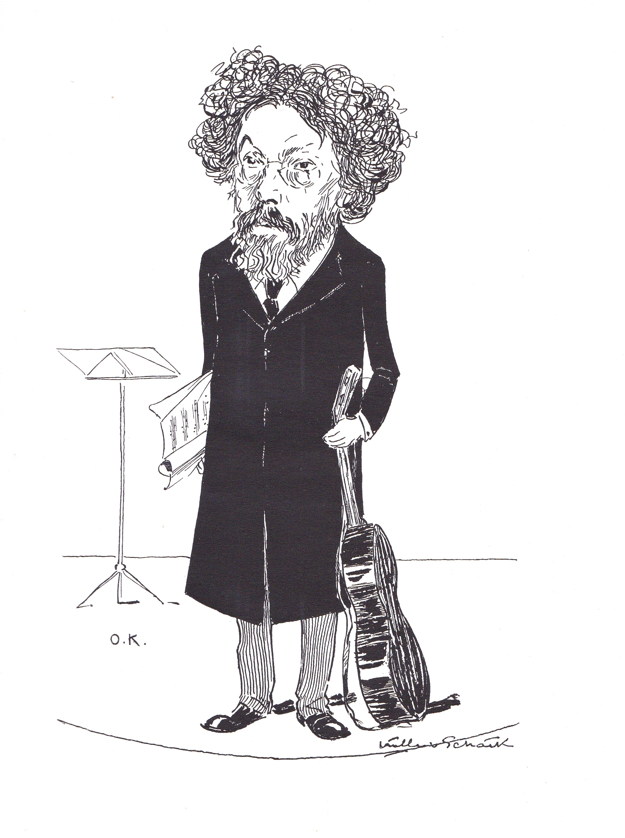 Koos Speenhoff. Sketch drawn by Willem van Schaik (1876-1938)